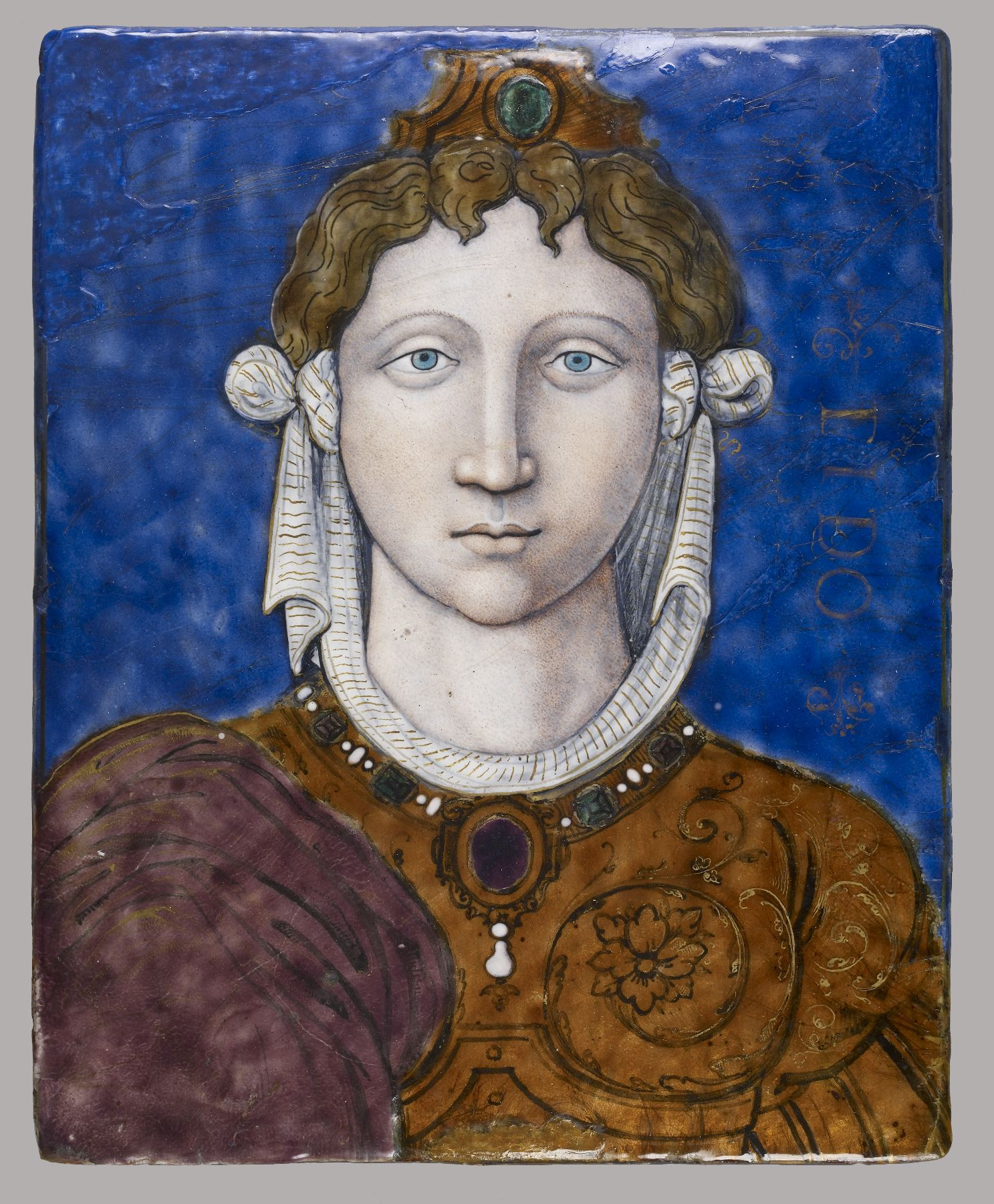 Dido is represented as the full-face bust portrait of a woman staring with a vacant expression. She wears a gold-brown tiara with a green cabochon (translucent green enamel on foil). Her dark blonde hair is parted and bound in a white falling veil. Her garment consists of a gold-brown cuirass, with a necklace of pearls, rubies and emeralds and a jeweled pendant featuring a large red stone. The jewel-like effect of these ornaments is produced by drops of white and translucent enamels on foils. She wears a purple mantle draped over her right shoulder. The staring formality and coldness of Dido suggest that as early as 1540 Léonard Limosin may have had knowledge of portraits painted by Agnolo Bronzino. It could also reflect Dido's melancholy when Aeneas abondonned her. A companion plaque of Dido's lover, Aeneas, the founder of Rome, also belongs to the Walters collection (Walters 44.239).